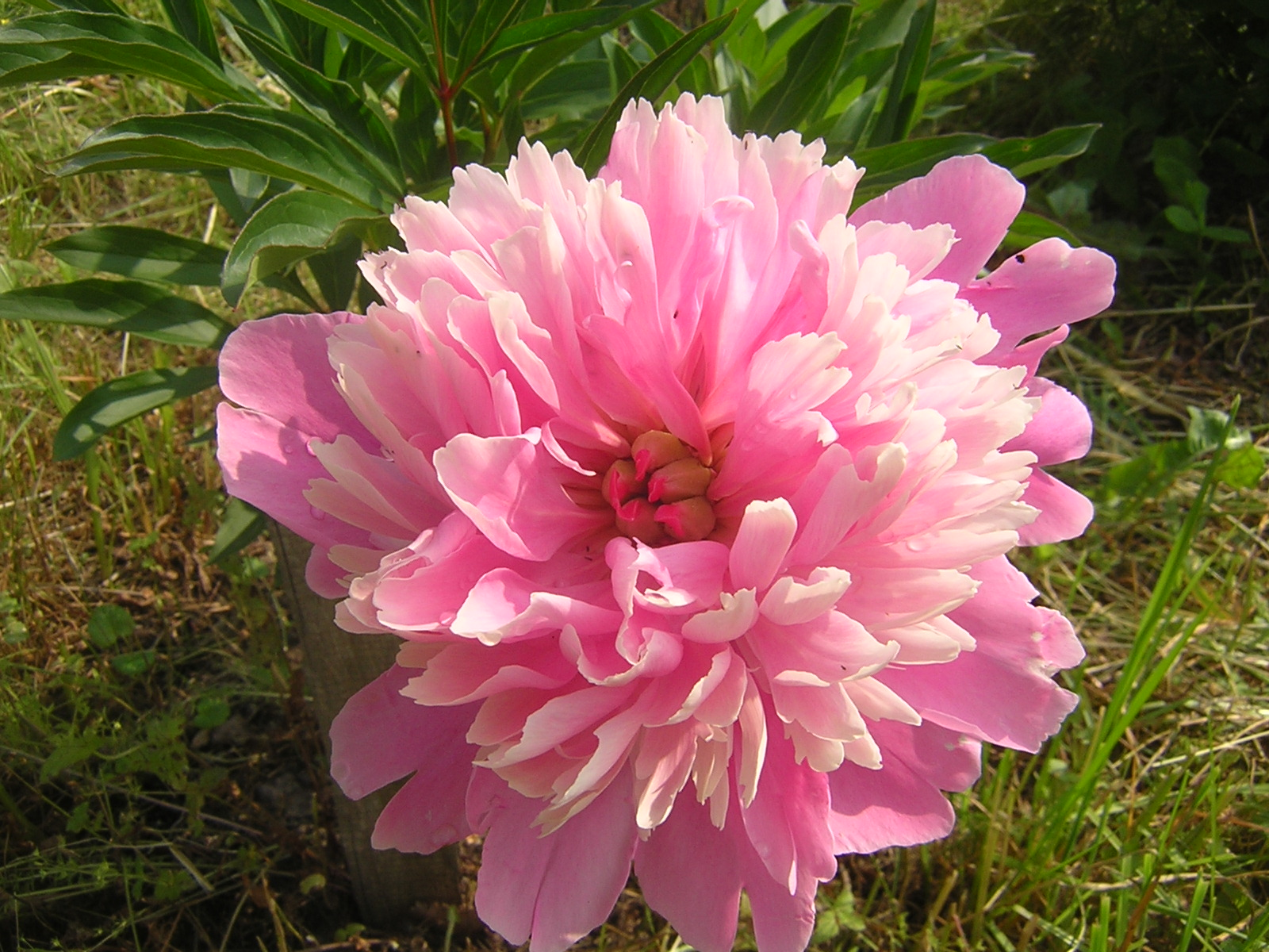 Paeonia. It is not 'Sarah Bernhardt'